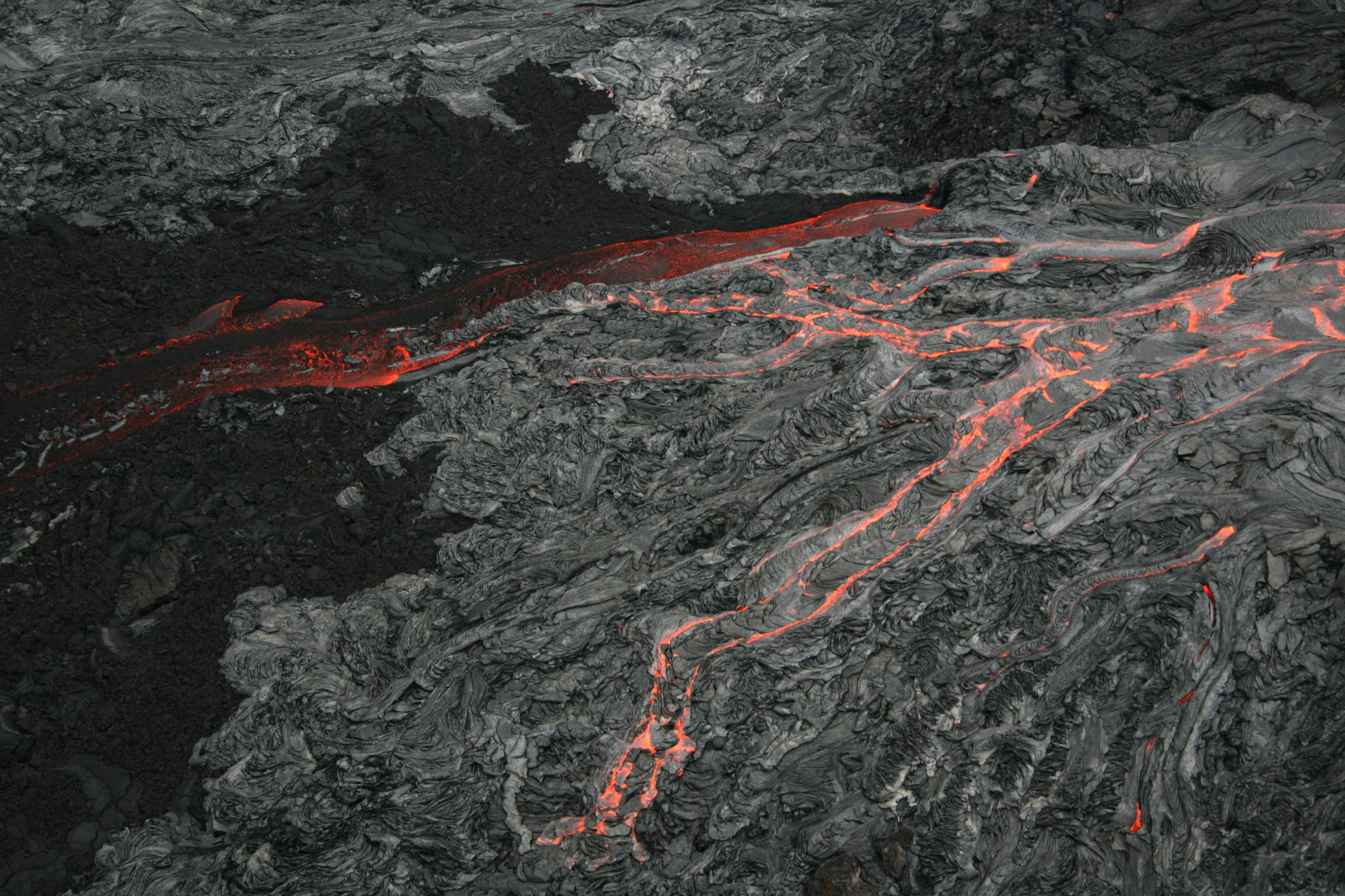 Pāhoehoe Lava and ʻaʻā flows at The Big Island of Hawaii. The picture was taken from a helicopter.